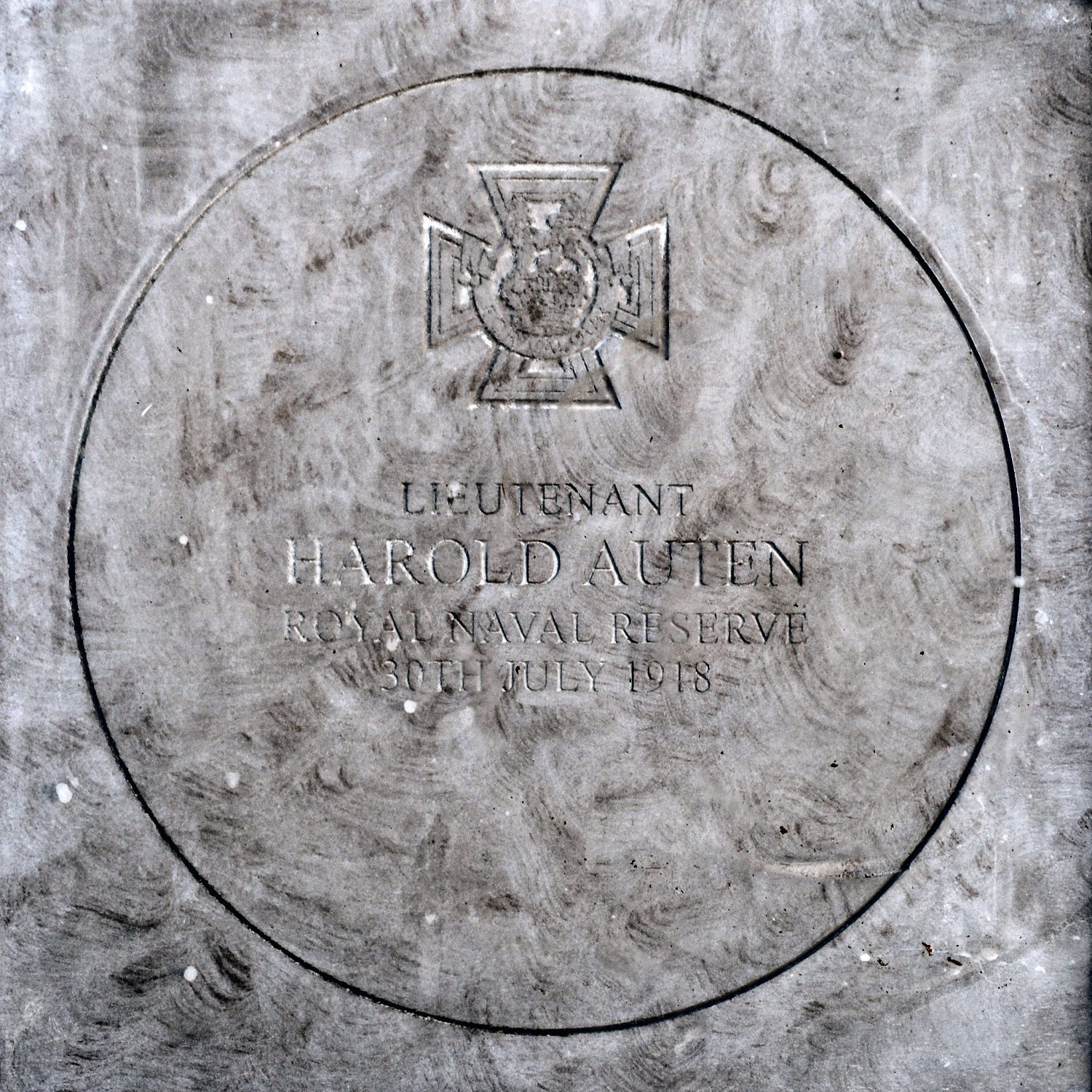 Leatherhead, St Mary & St Nicholas, Harold Auten VC commemorative stone outside the church